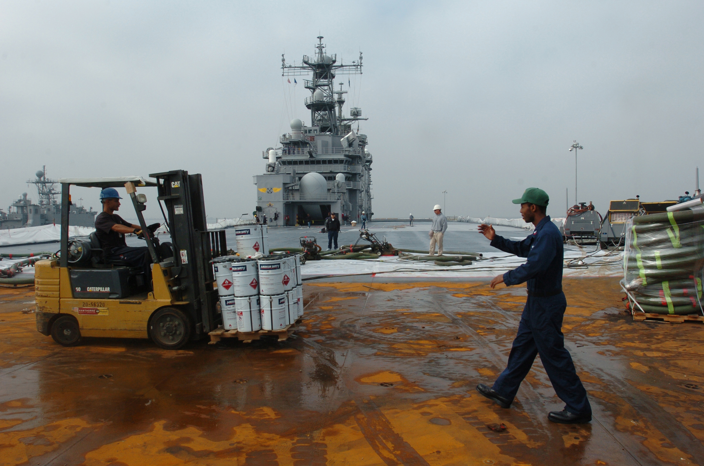 San Diego (Oct. 20, 2005) – Boatswain’s Mate 2nd Class Eric Hagan, right, directs a contractor on a forklift during the resurfacing of the flight deck aboard the amphibious assault ship USS Peleliu (LHA 5). Peleliu was in a maintenance period in preparation for its upcoming Western Pacific deployment when this photo was taken. U.S. Navy photo by Journalist 2nd Class Zack Baddorf (RELEASED)